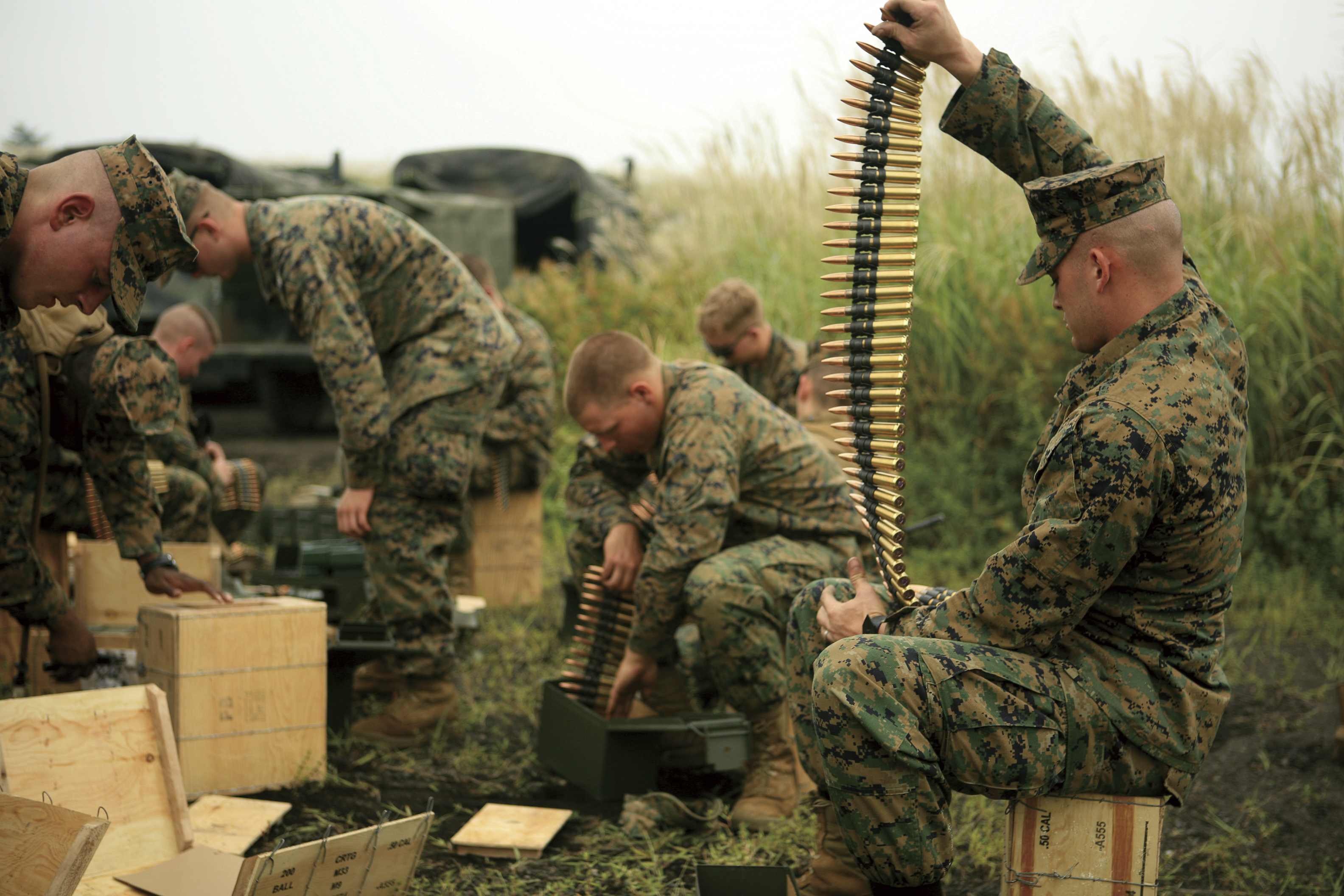 Ammunition for the .50 caliber machine gun is prepared as Marines with Headquarters Battery, 3rd Battalion, 12th Marine Regiment, 3rd Marine Division, III Marine Expeditionary Force, prepare for their first day of firing crew-served weapons at the East Fuji artillery range Sept. 12.